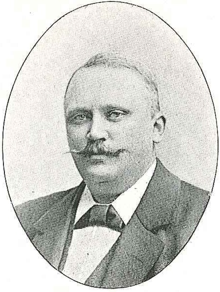 Axel Borgström (1862-1939), Swedish jurist, civil servant and municipal politician.